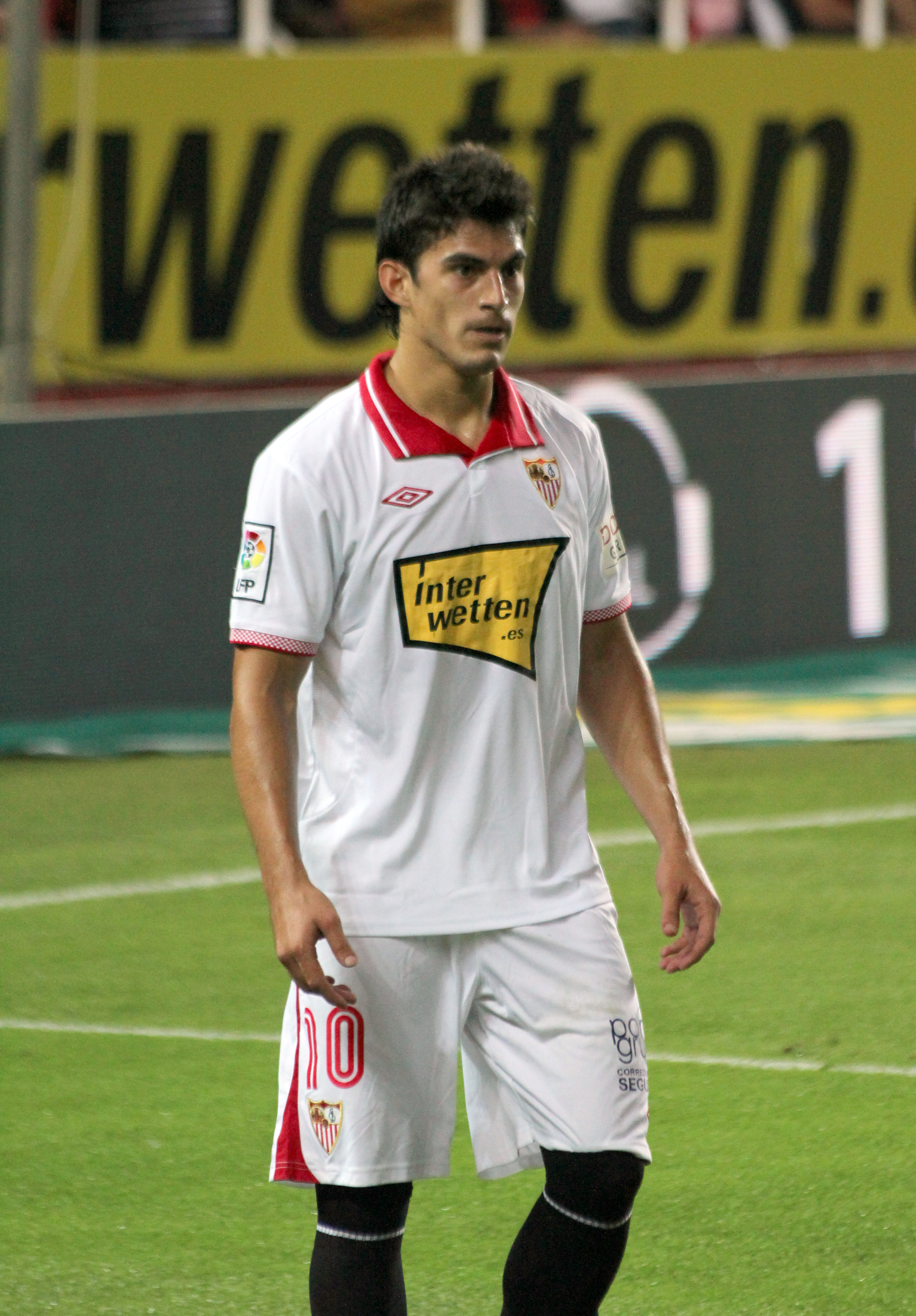 Argentine footballer who plays for Sevilla FC in La Liga.